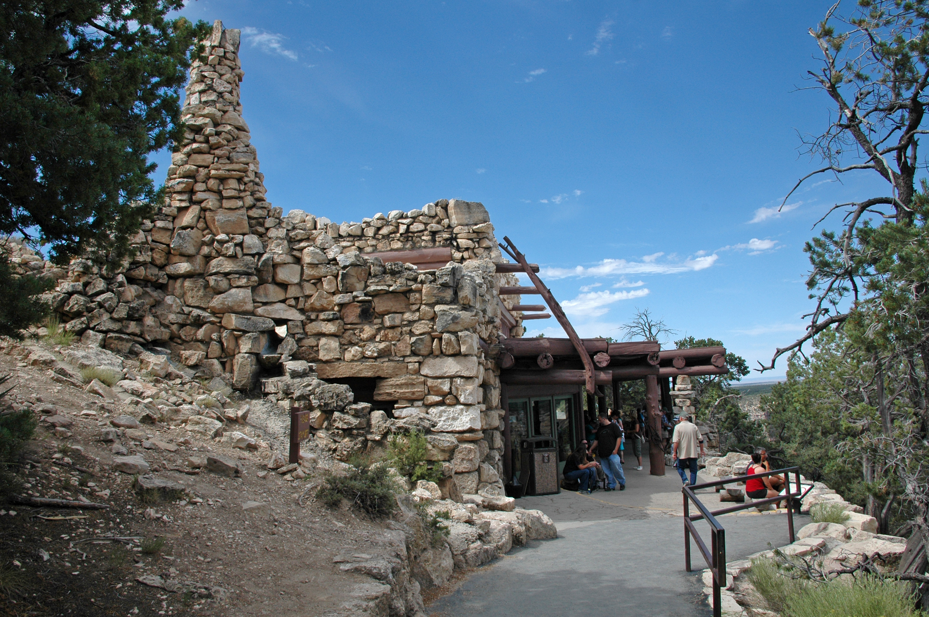 Hermit's Rest (1914), several miles to the west of Grand Canyon Village on the South Rim. The building, originally constructed by Mary Colter as a rest stop for the short stage line that ran from El Tovar to this location, is a stone building placed several feet back from the rim edge, and is tucked into a small man-made earthen mound, built around and atop the building to blend it in with its setting. Hermit's Rest was designed to resemble a dwelling constructed by an untrained mountain man using the natural timber and boulders of the area. From the entrance path a haphazard looking structure of stone and wood greets the visitor, and the approach to Hermit's Rest is marked by a small stone arch set in a stone wall along the original pathway from the parking area to the building. The exposed portions of the building that are not banked into the earth are of rubble masonry bonded with cement mortar, structural logs, and a few expanses of glass. The chimneys are gently battered rubble masonry.